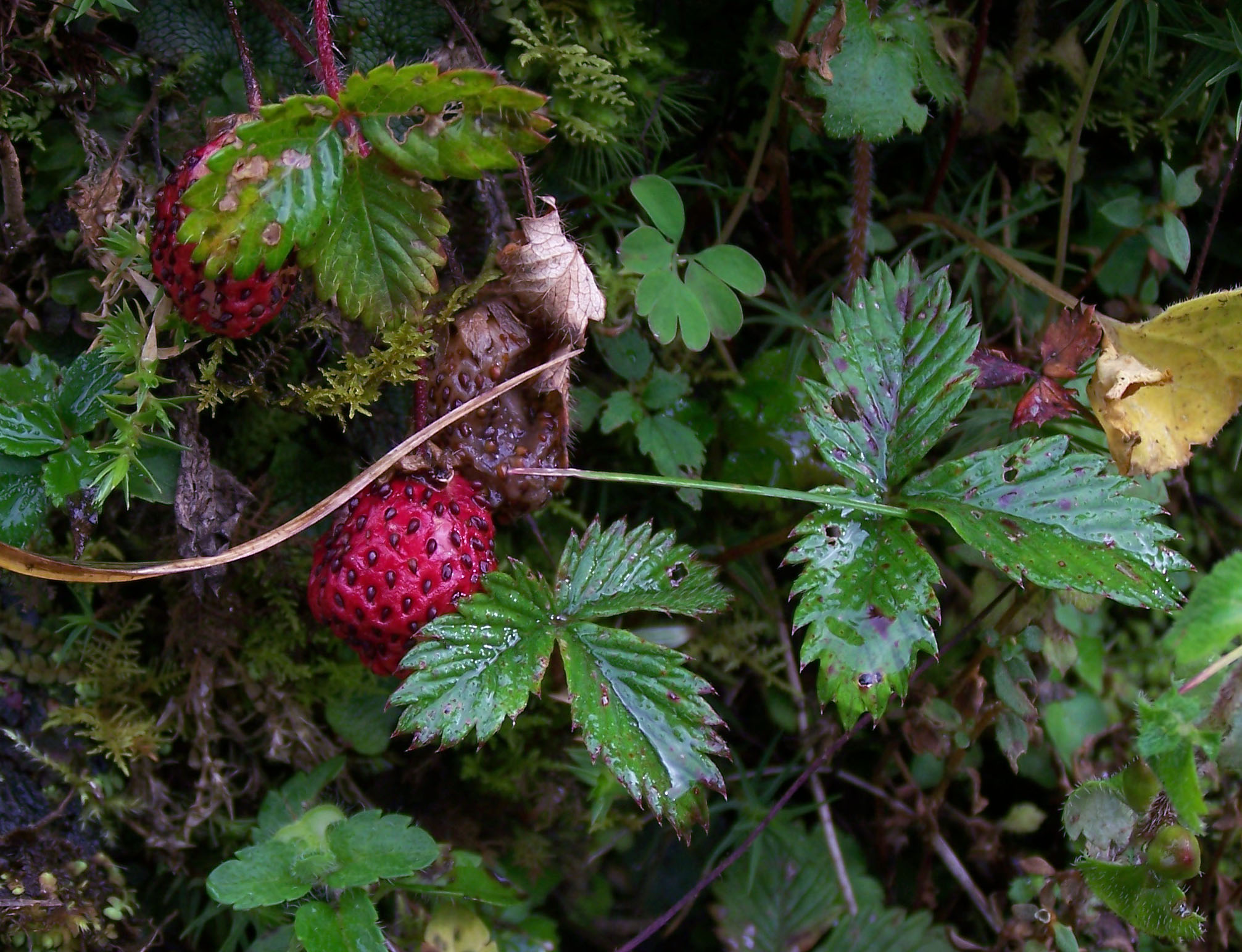 See User:Woudloper/Himalayan flora. Fragaria nubicola (Himalayan Strawberry). August, 2700 m, near Deurali, Solu region, Nepal.